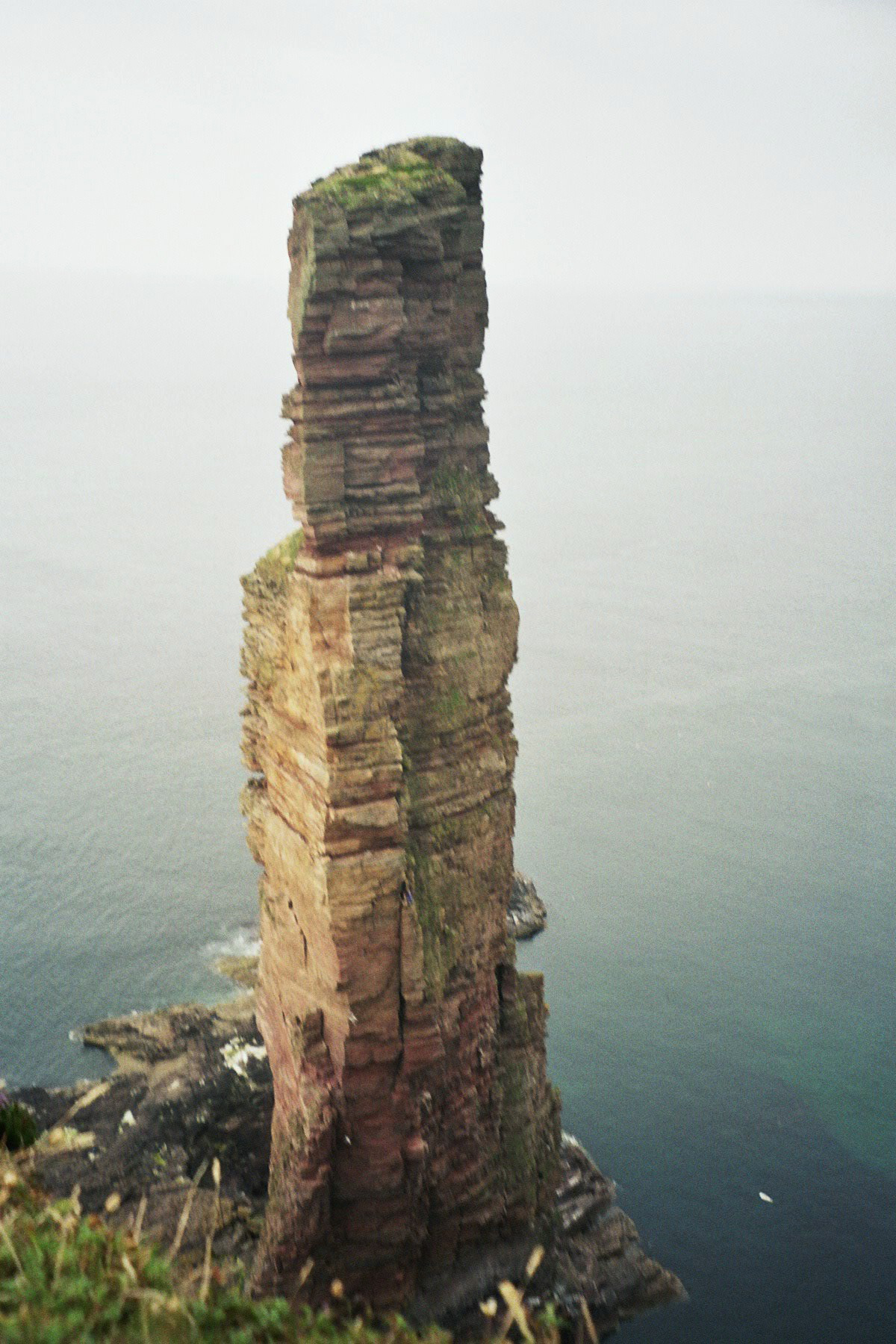 The Old Man of Hoy at the Island Hoy (Orkney).